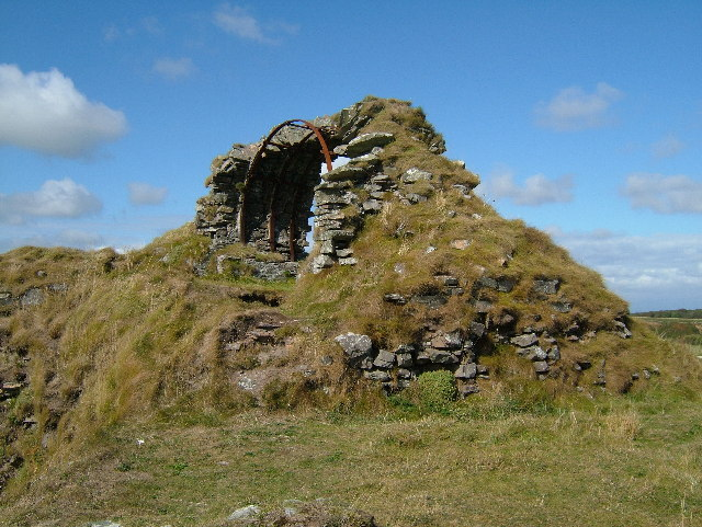 Cruggleton Castle The solitary arch of Cruggleton Castle is all that remains of a grand eight-tower castle. Overlooking the Solway Firth, the castle was constructed on an earlier promontory fort, and its stone was later plundered for building.